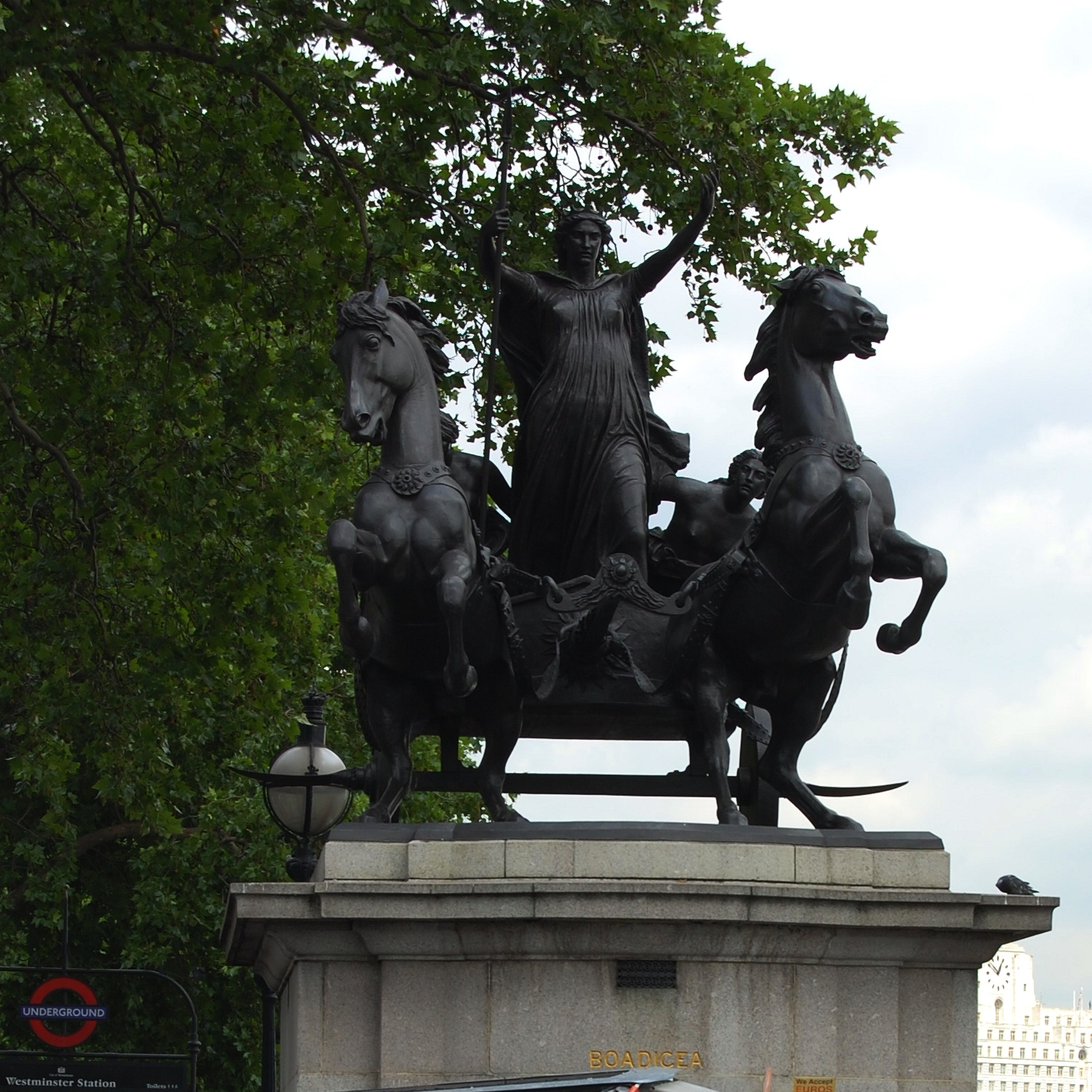 Boudica statue near Westminster Pier, London